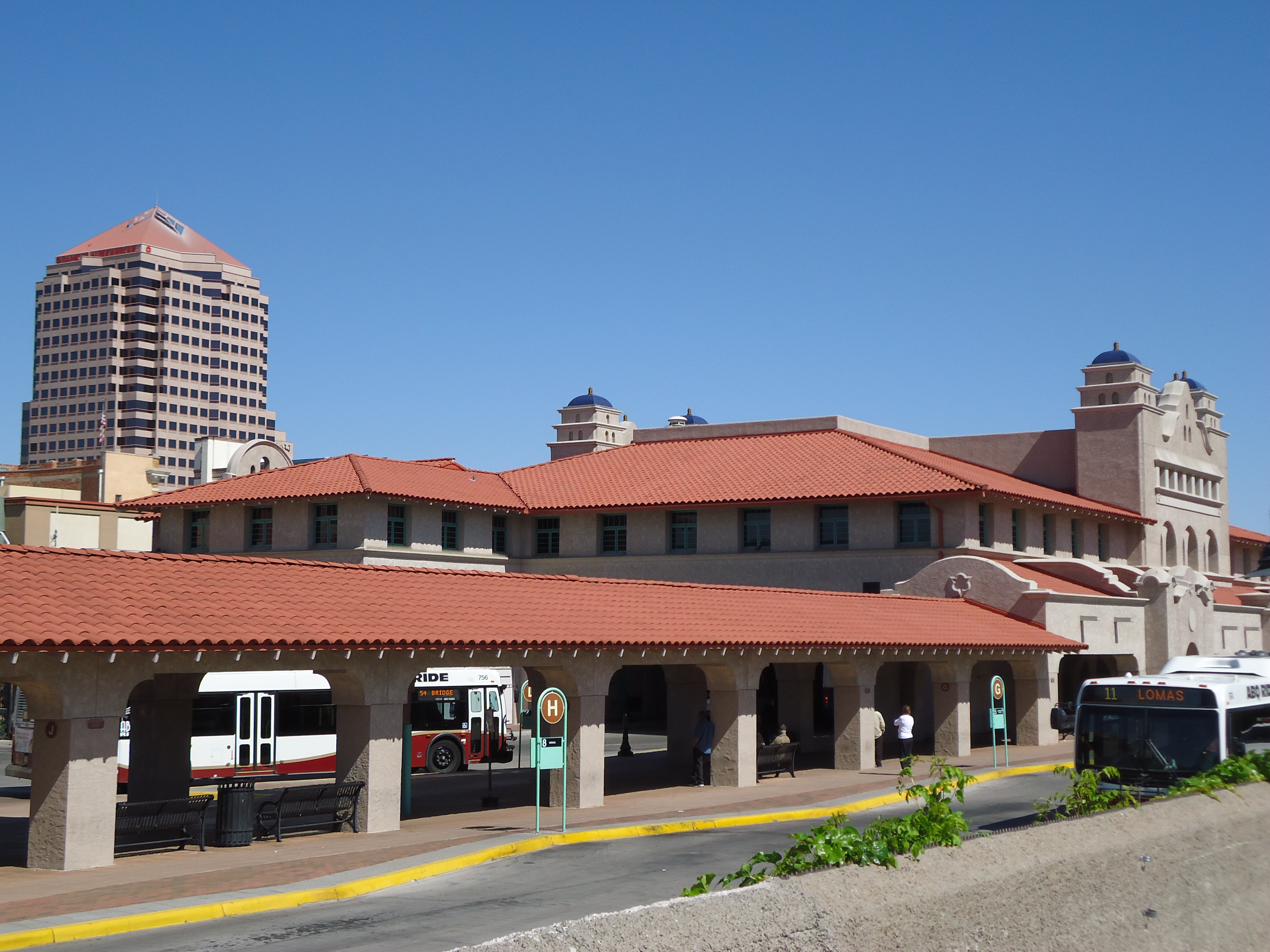 View of the Albuquerque Alvarado Transportation Center, with BOA Tower on left side.